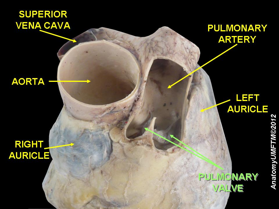 Anatomical Dissections